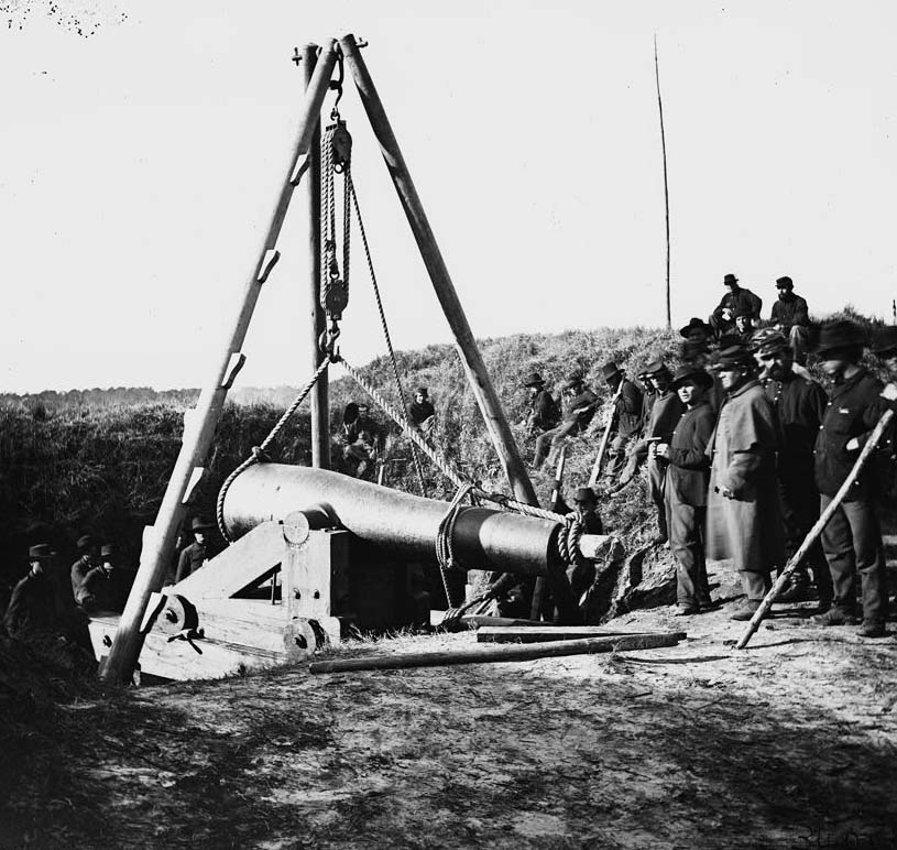 Savannah, Ga., vicinity. Army engineers removing 8-inch Columbiad gun from Fort McAllister]